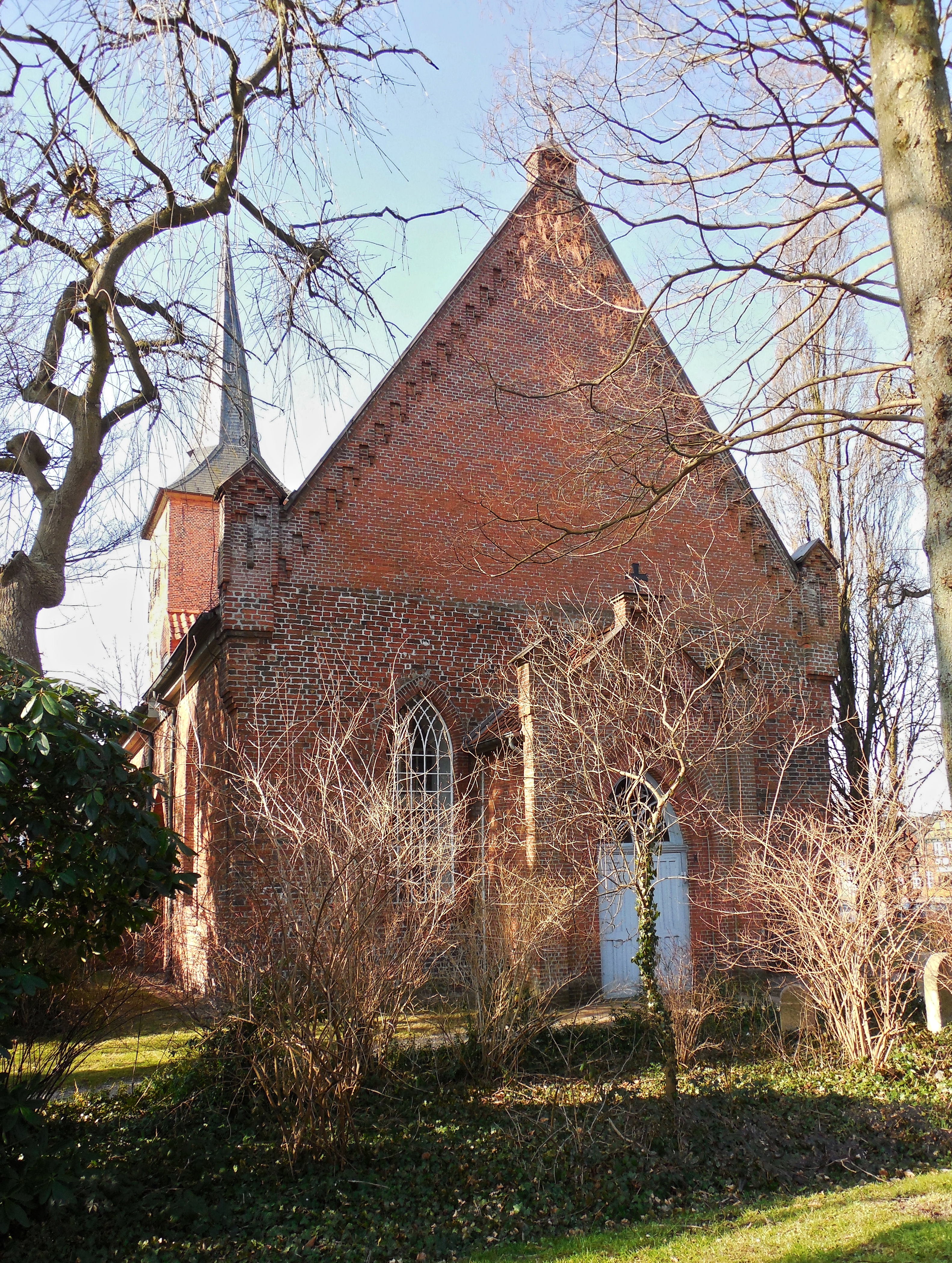 Bad Bramstedt, Germany